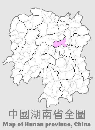 Location_of_Ningxiang_county, Hunan, China(湖南省宁乡县位置图)